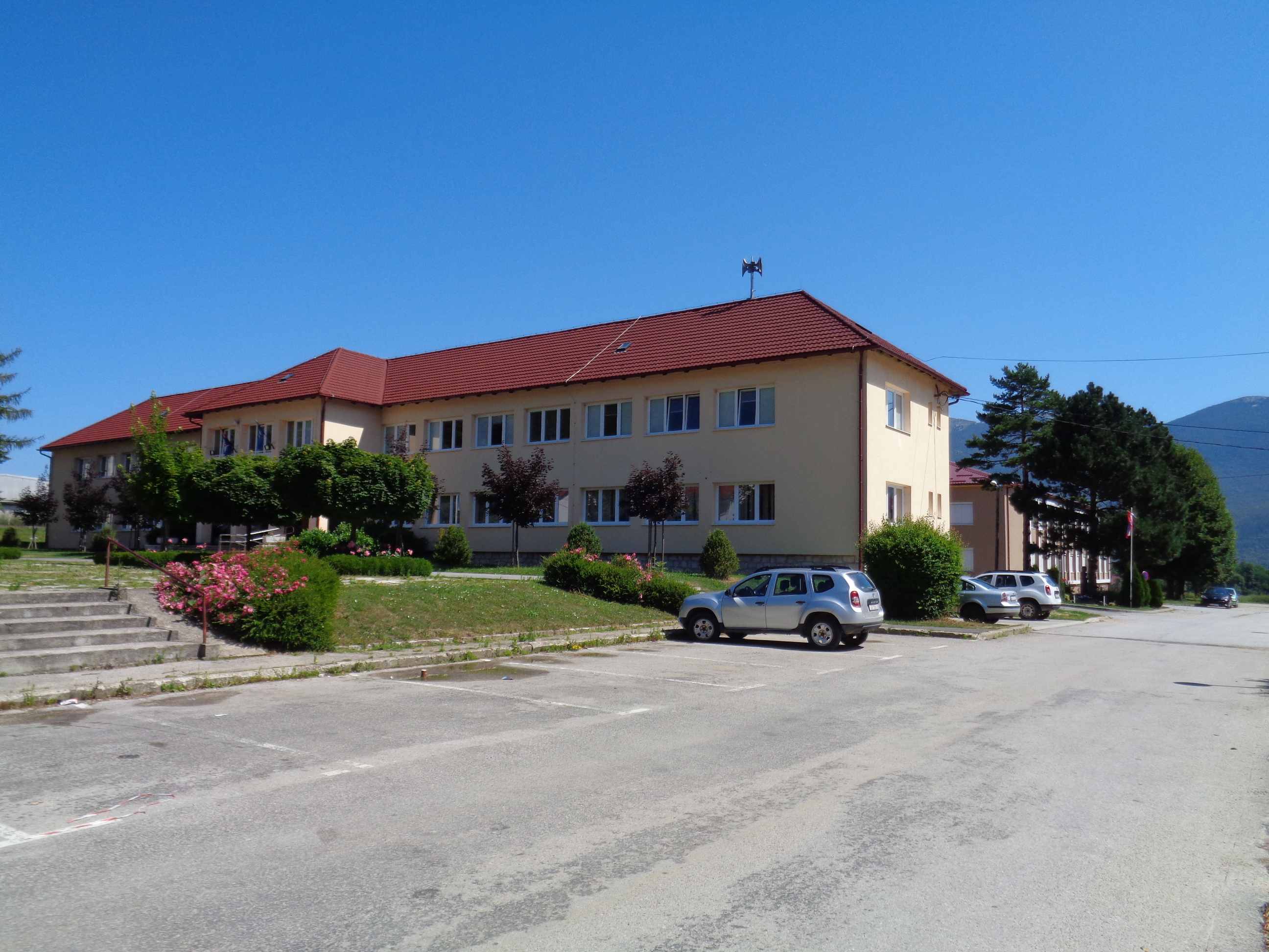 Korenica, seat of the Municipality of Plitvička Jezera, Lika-Senj County, Croatia - Municipal building